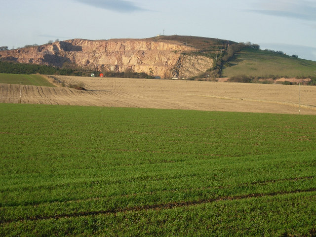 Balmullo quarry from the A914 south of Balmullo